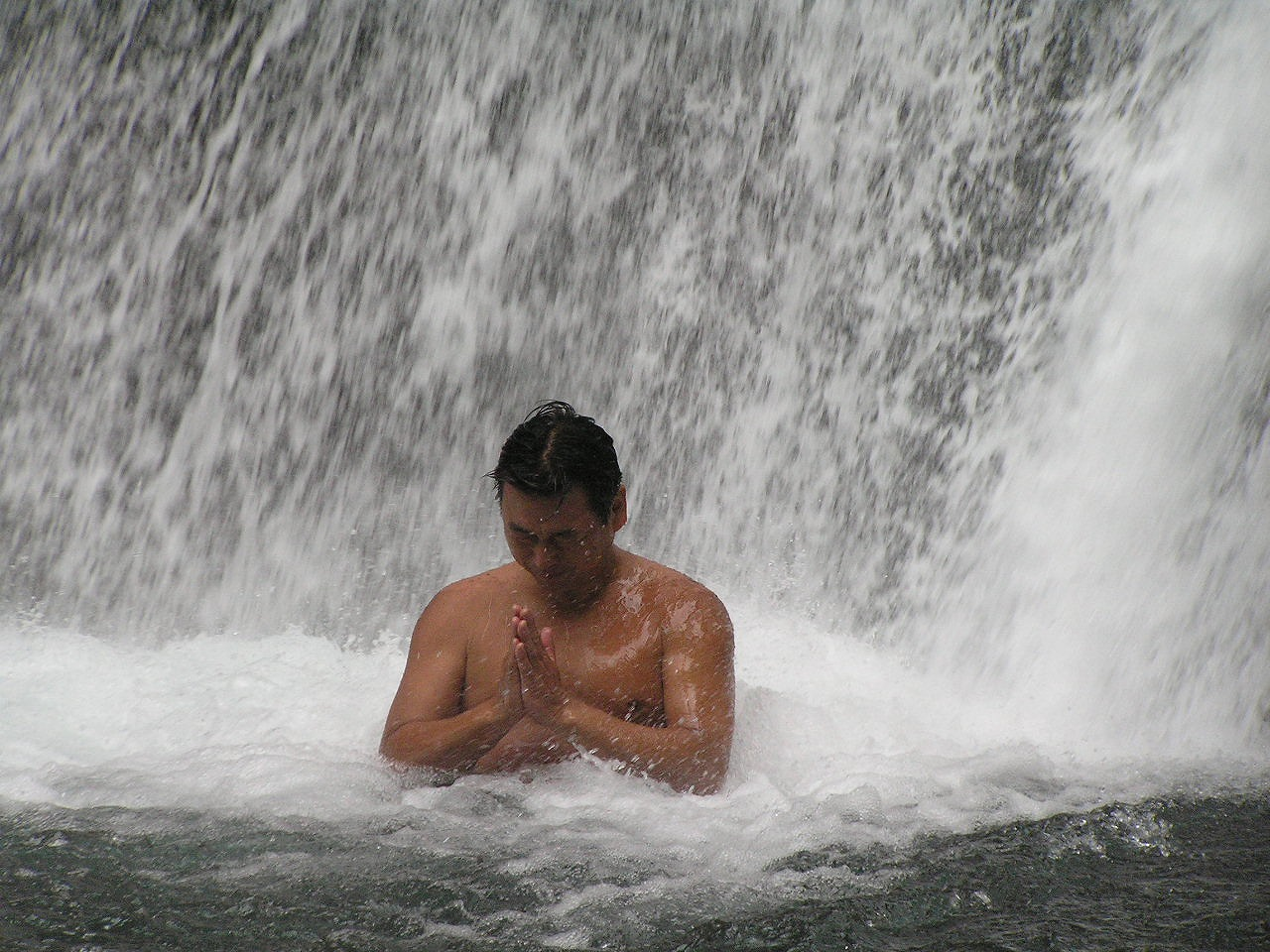 taki-gyo